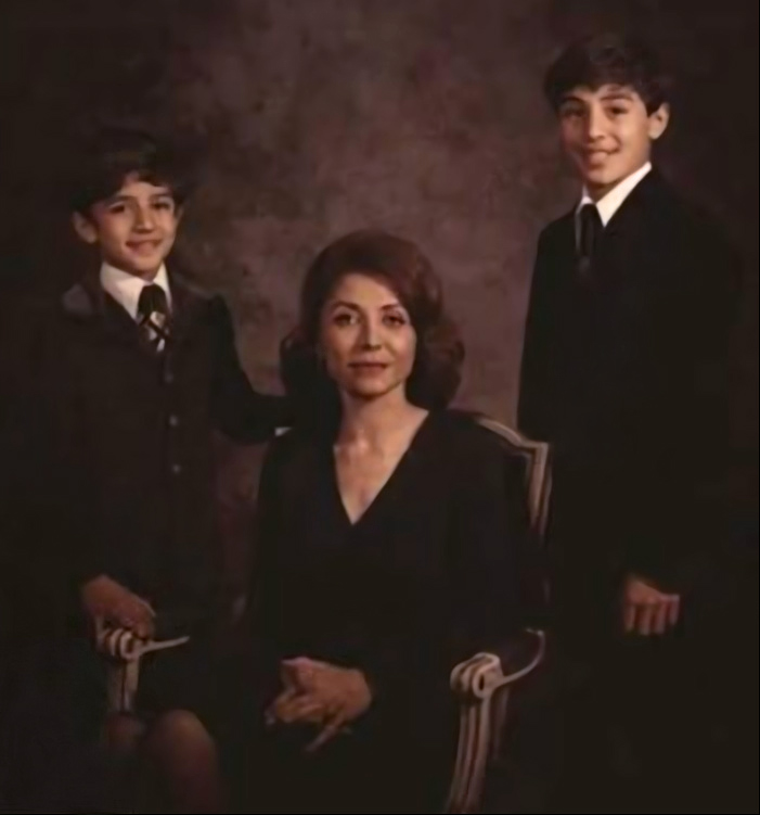 right to left:Kambiz Khatami - Fatimeh Pahlavi - Ramtin Khatami